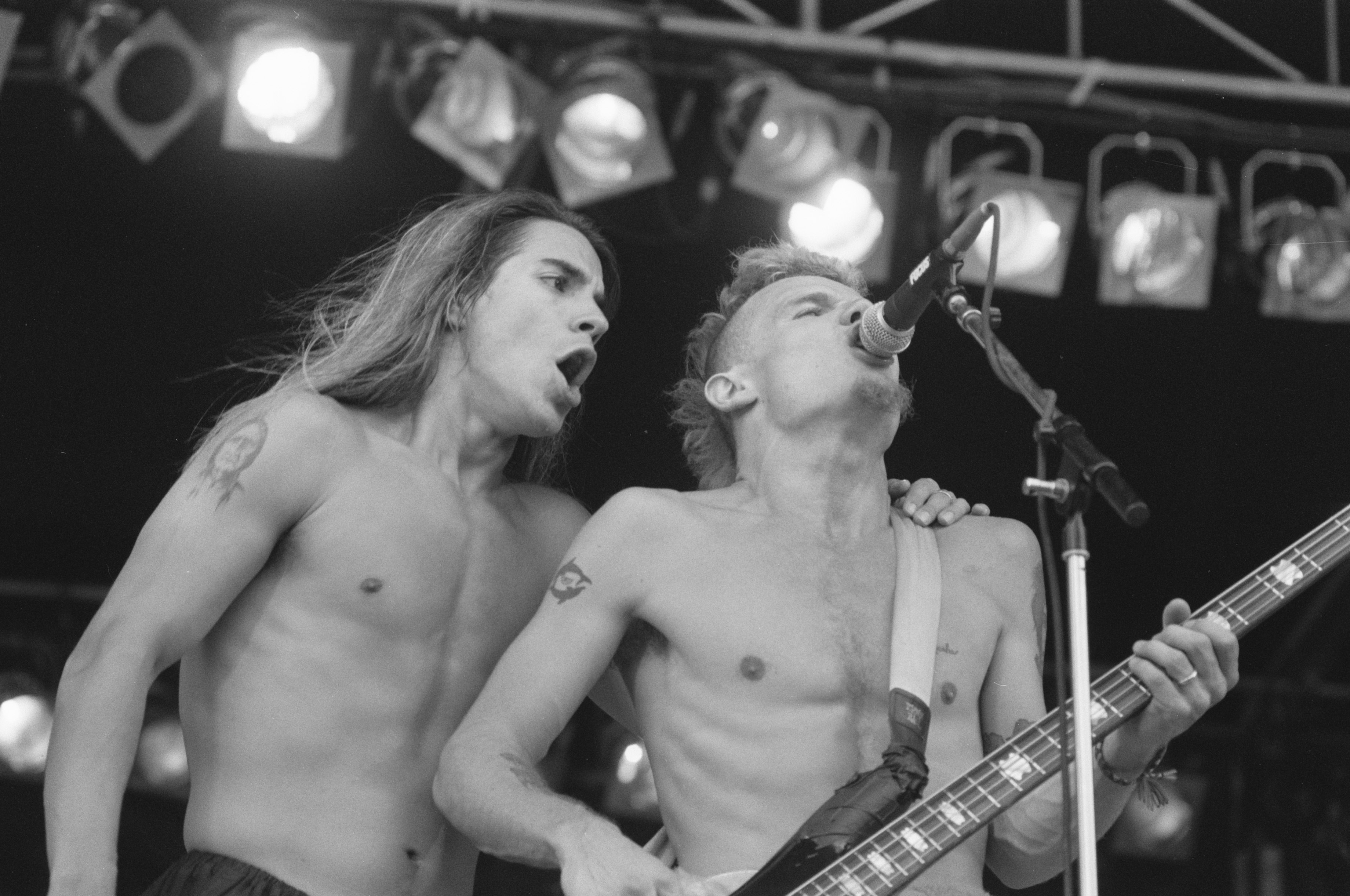 Red Hot Chili Peppers, Uitmarkt 26 Aug. 1989, Amsterdam (the Netherlands)